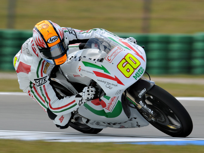 Michael Van Der Mark 2010 Assen